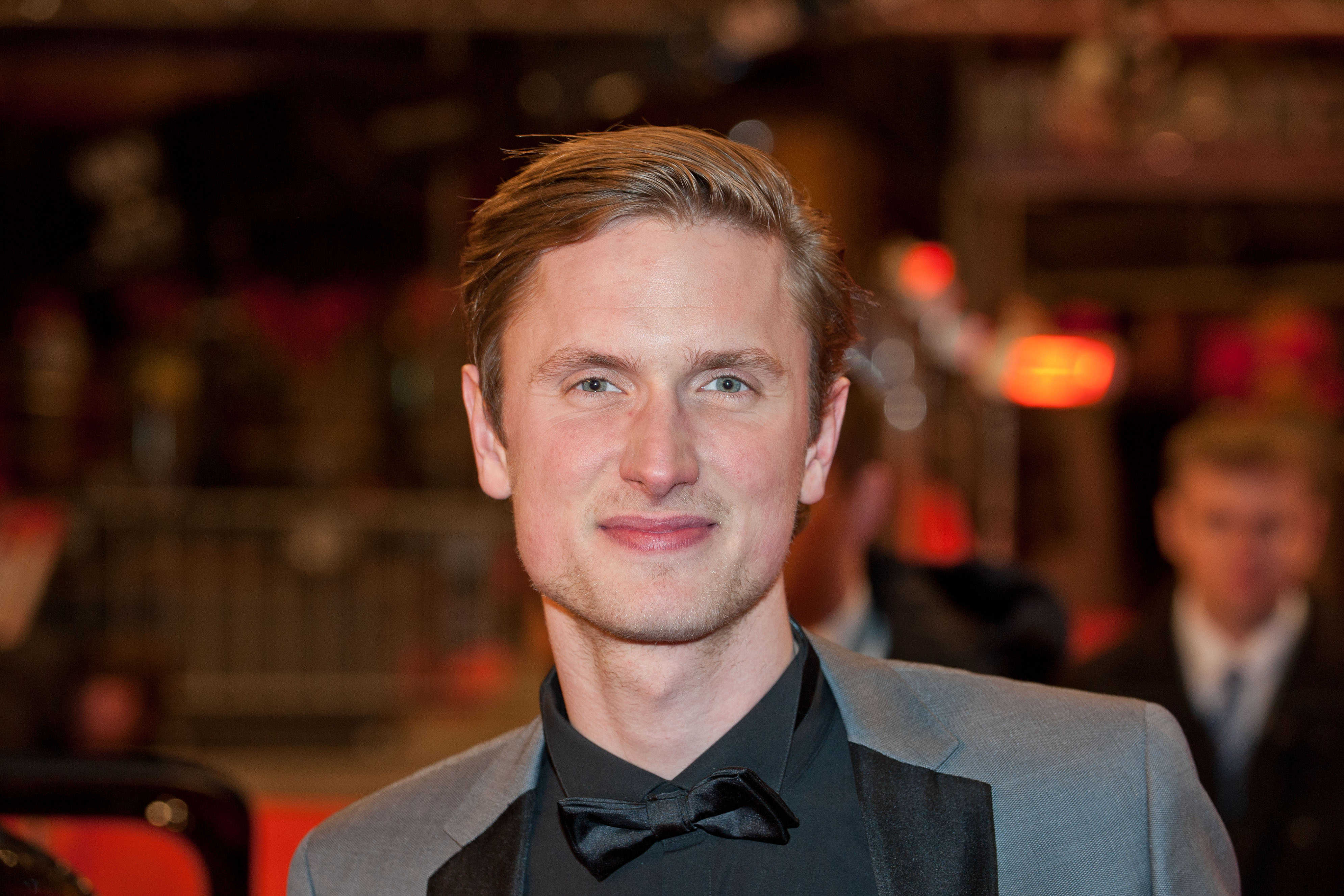 Danish actor Mikkel Boe Følsgaard after the European Shooting Stars Award Ceremony